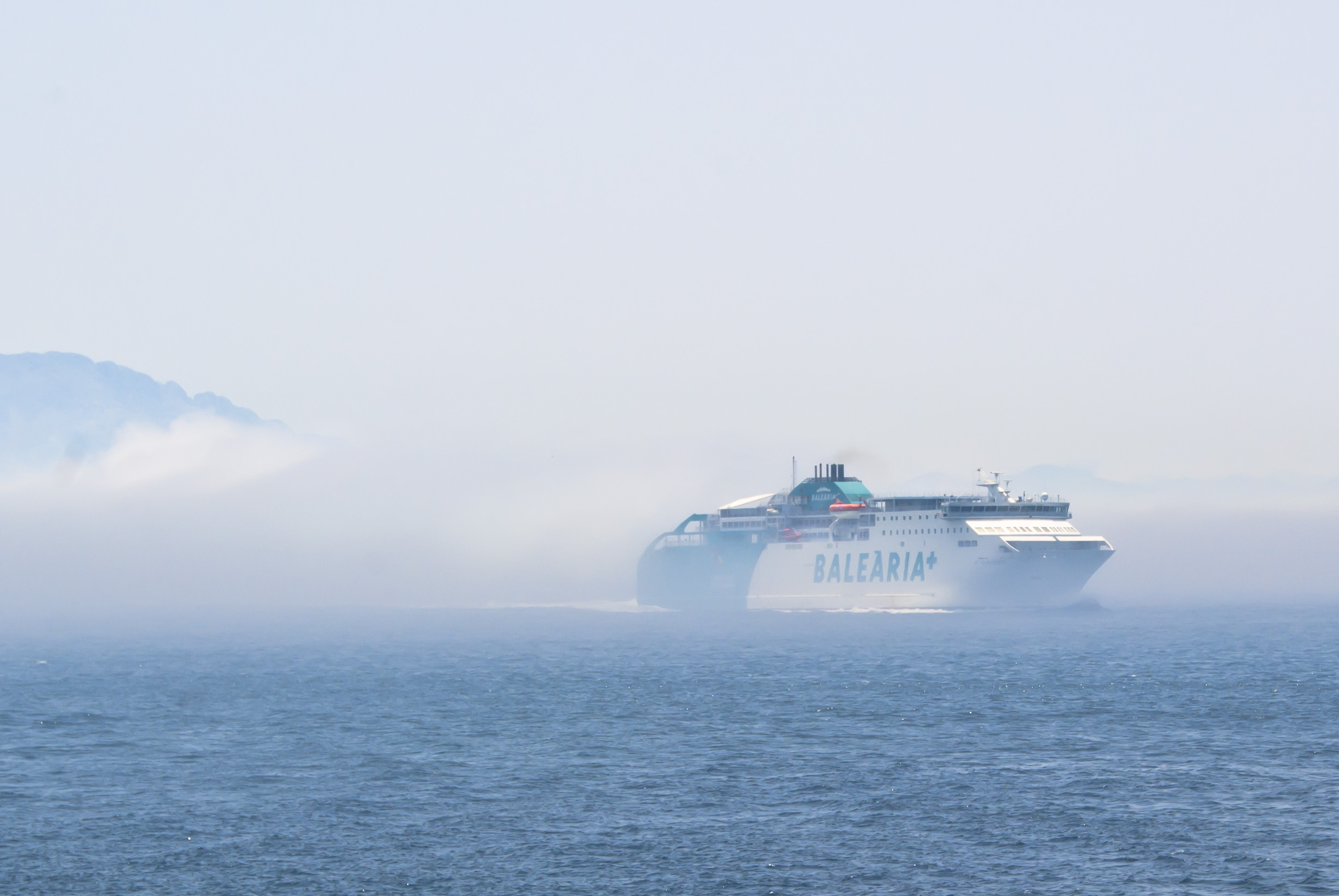 Balearia ferry from Sebta to Algeciras at the stratit of Gibraltar